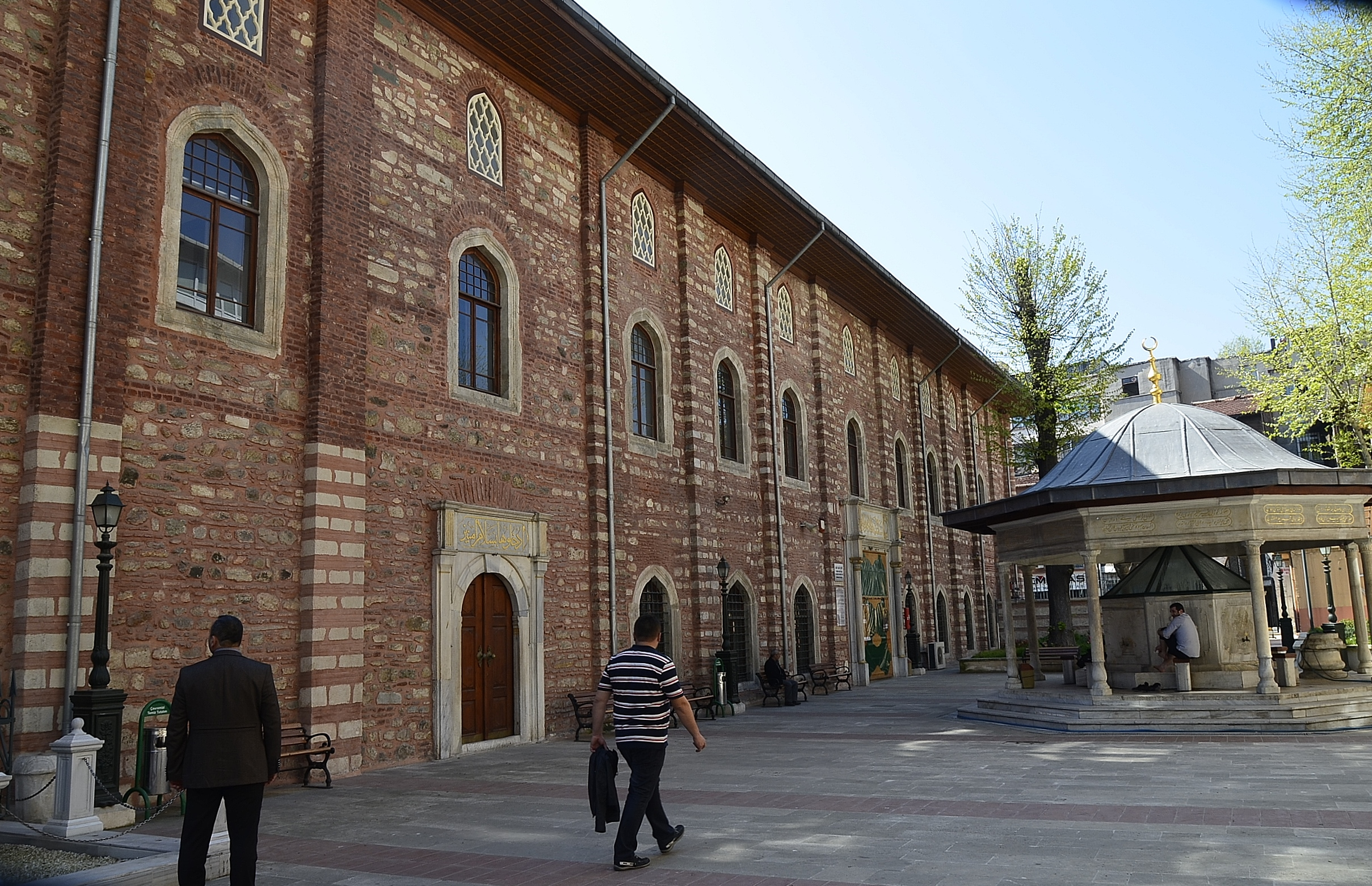 Arap Mosque in Karaköy, Istanbul